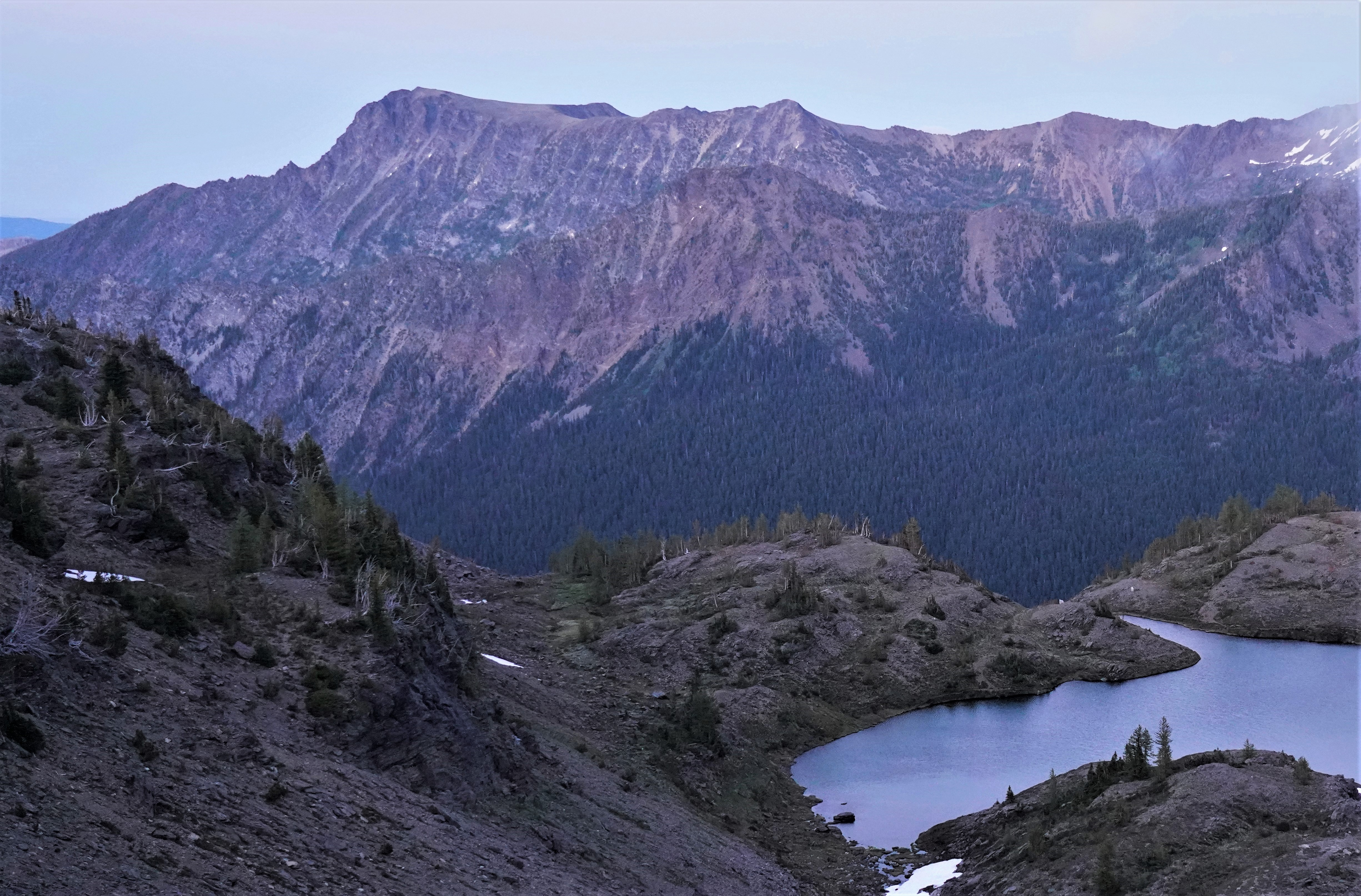 Lake Edna with Big Jim Mountain left in the background